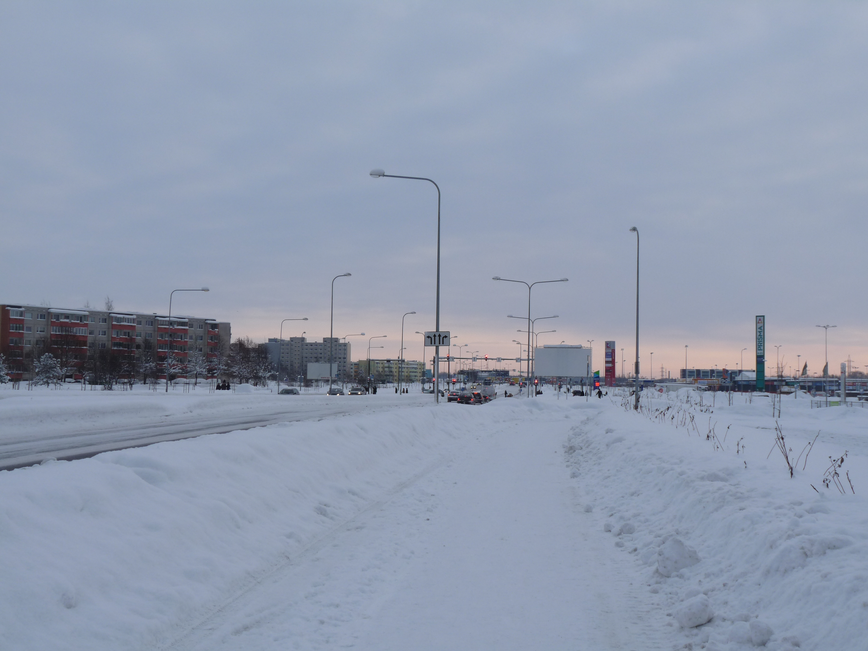 Mustakivi street in Tallinn